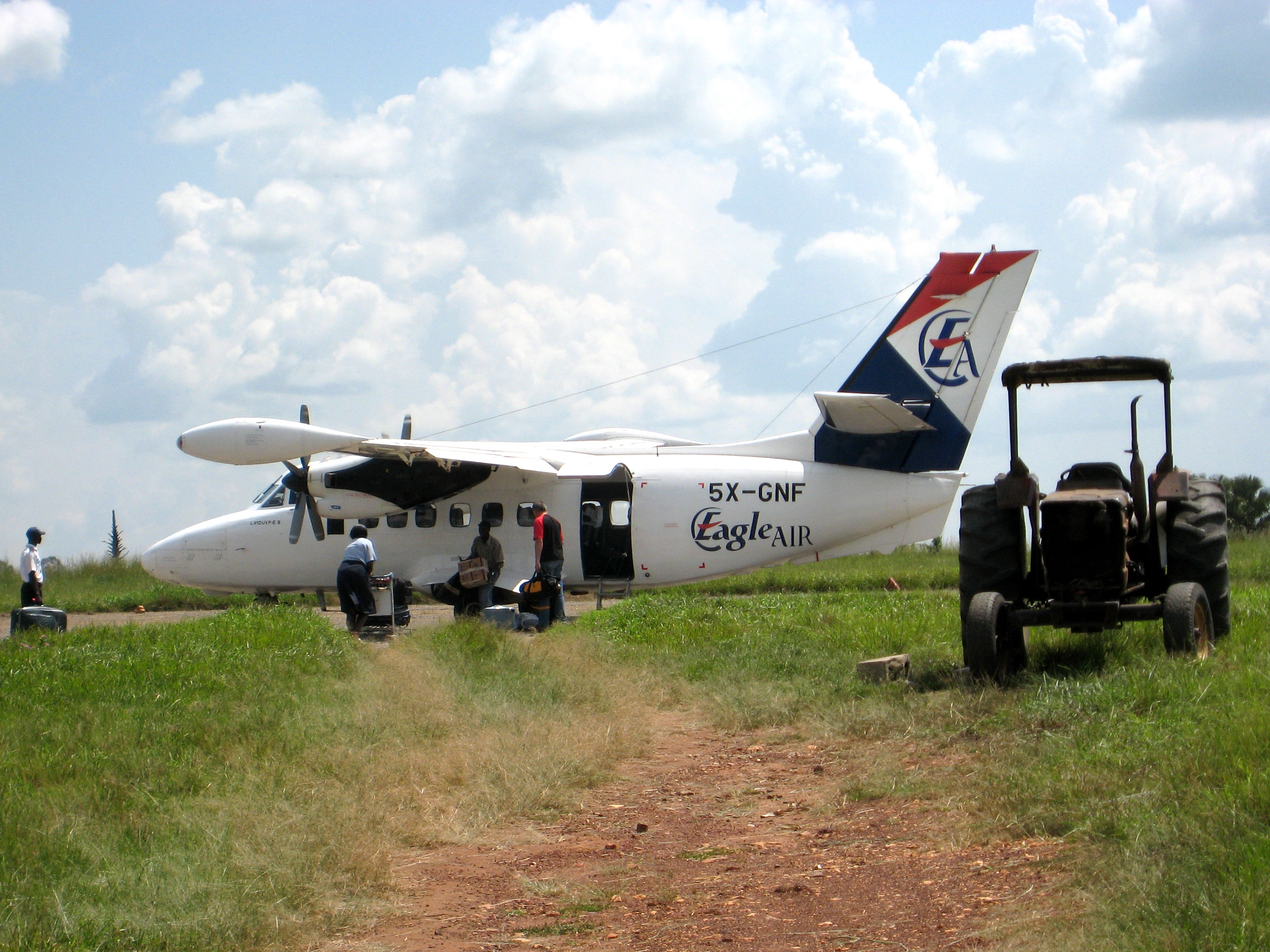 Let L410UVP-E9 Turbolet aircraft in livery of Eagle Air (Uganda) at Gulu Airfield in 2009